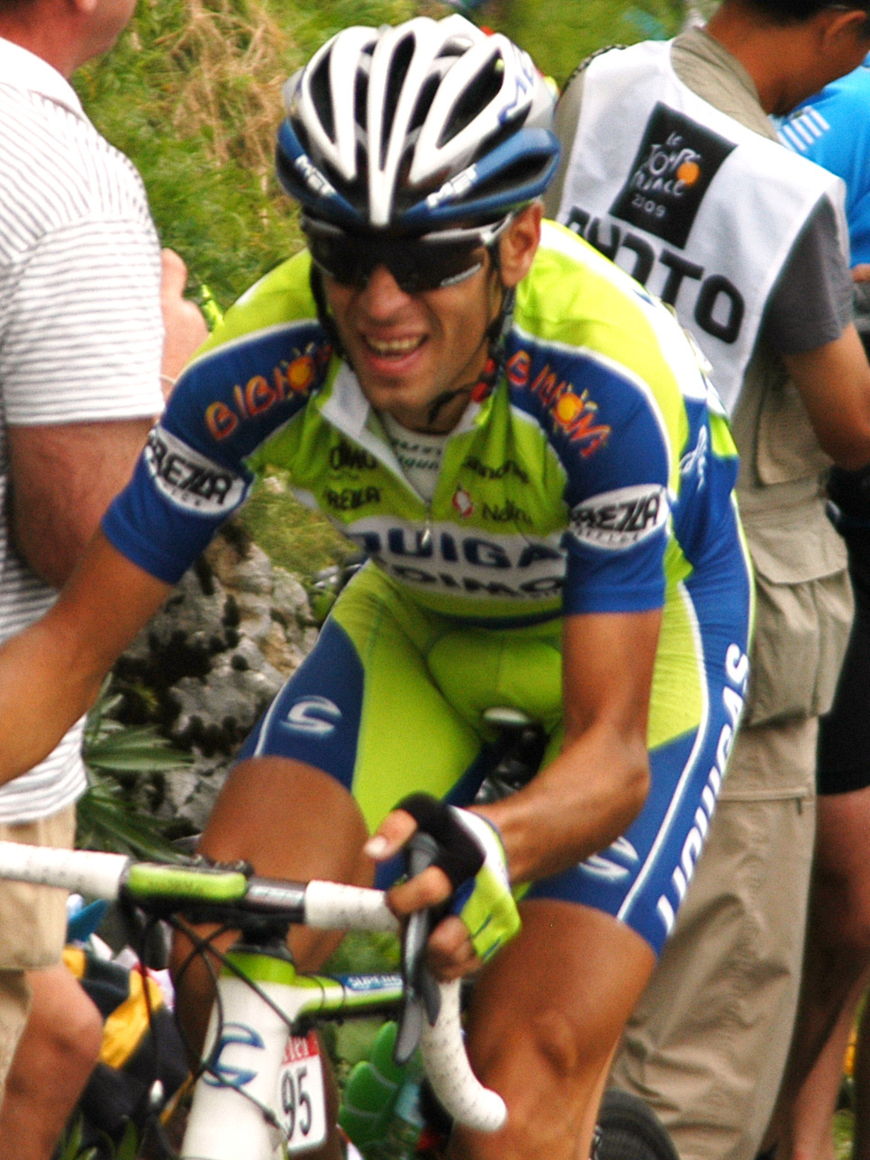 Vincenzo Nibali (ITA) at stage 17 of the 2009 Tour de France on the Col de la Colombière.